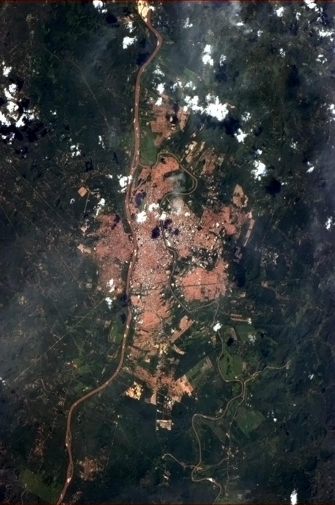 Teresina and Parnaiba river pictured from the ISS